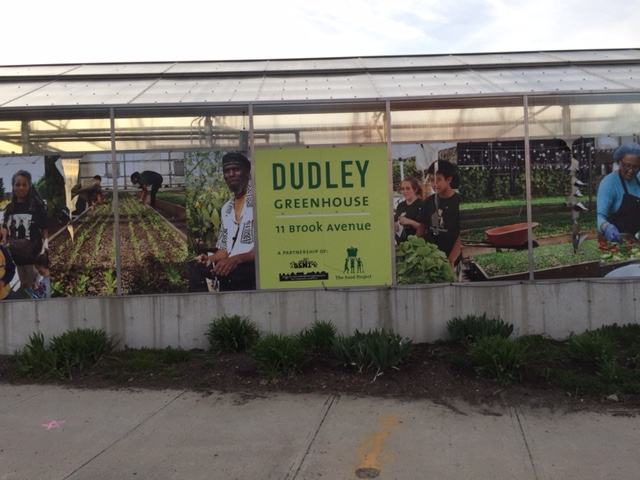 Dudley Greenhouse, a community garden in Roxbury, Boston